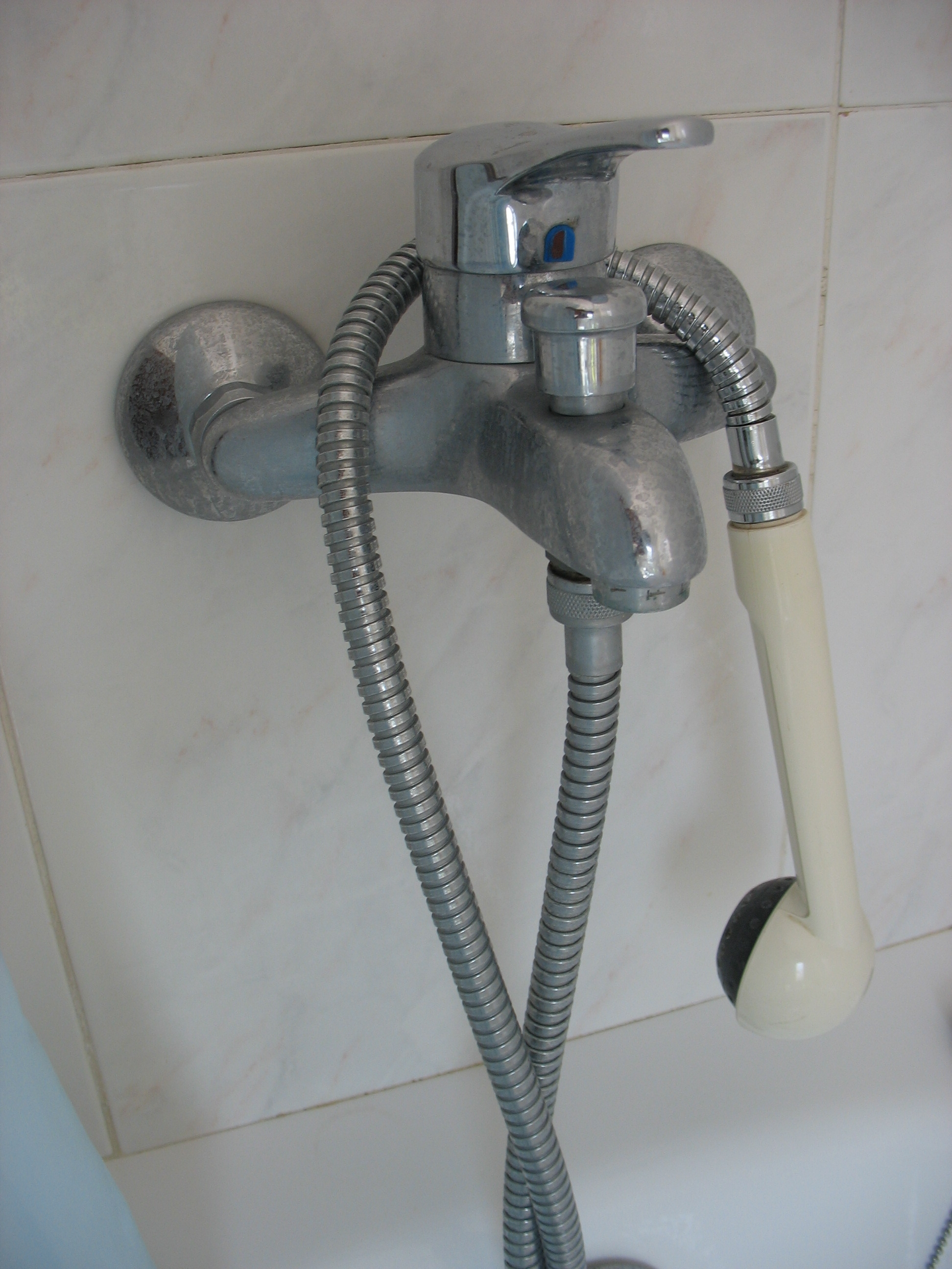 Shower tap, European. Pull knob for water flow through the shower. Push down for water flow to the tub. Single handle controls flow intensity (move up) or temperature (left-right).